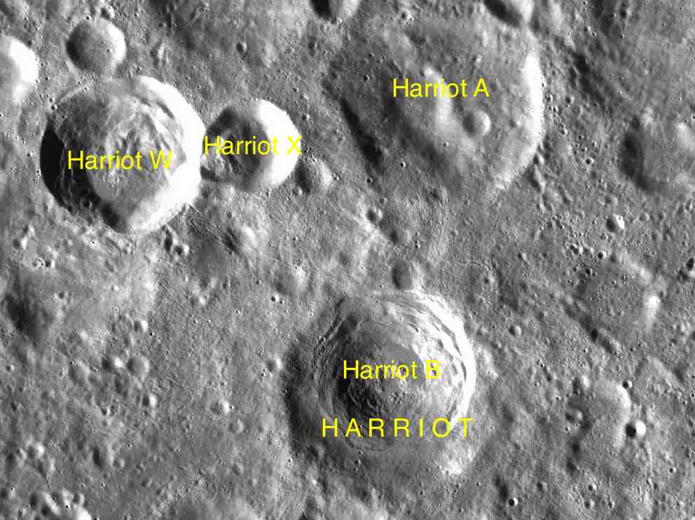 Part of the chart LAC-30 used for the presentation